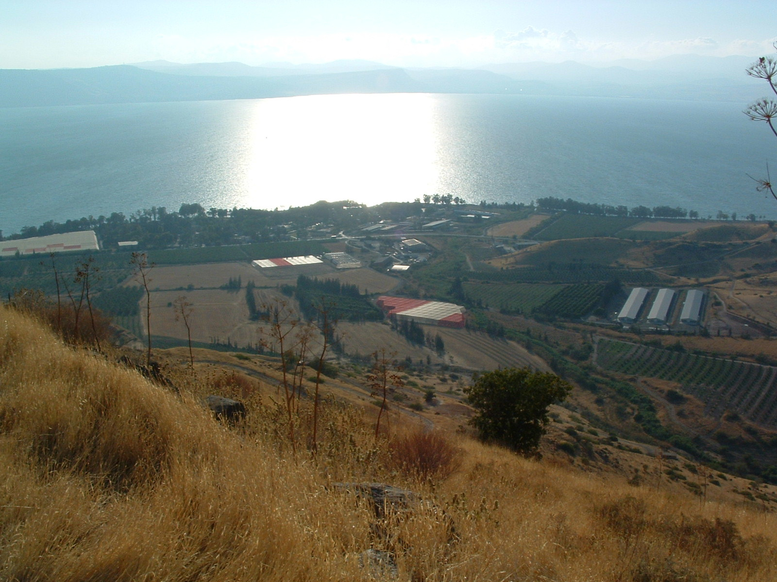 Photo taken by ChulaOne for use by Wikipedia